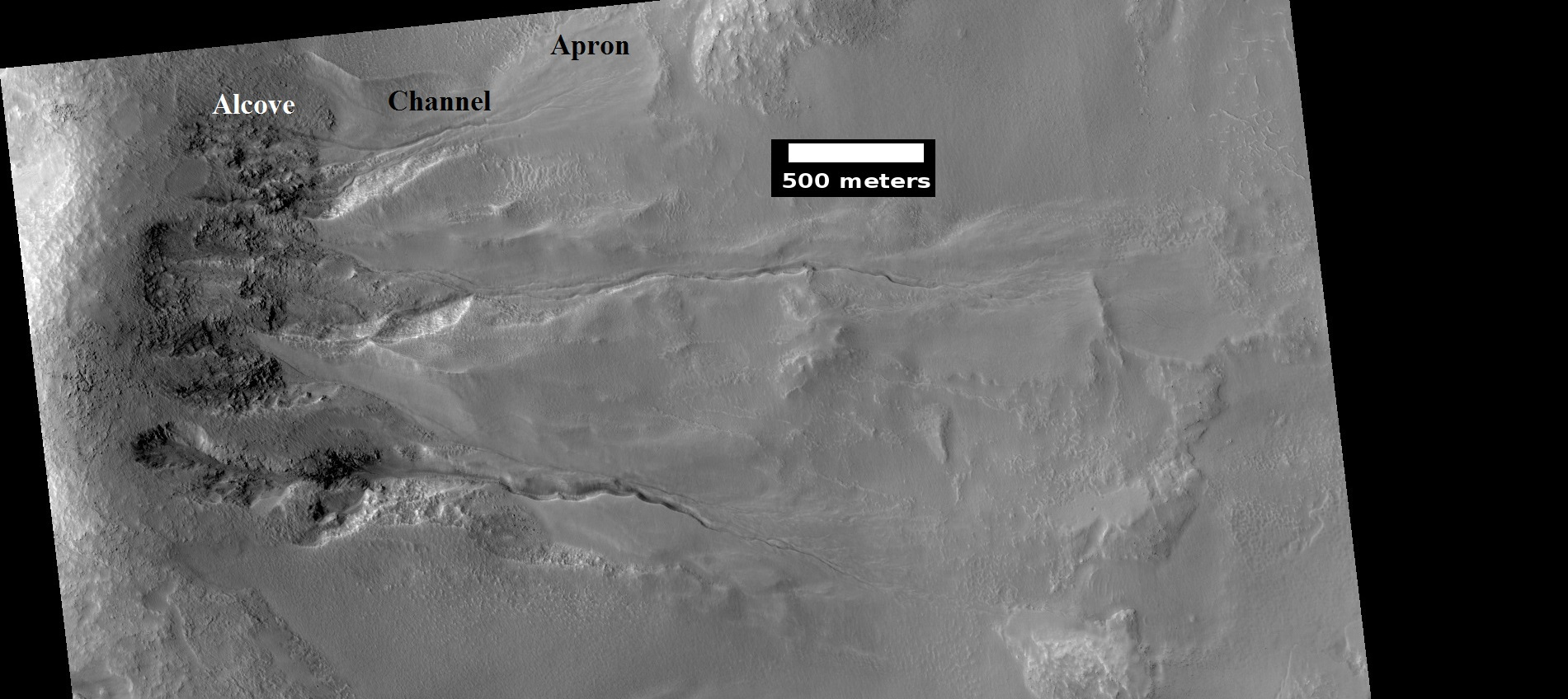 Gullies in crater with parts labeled, as seen by hirise under HiWish program